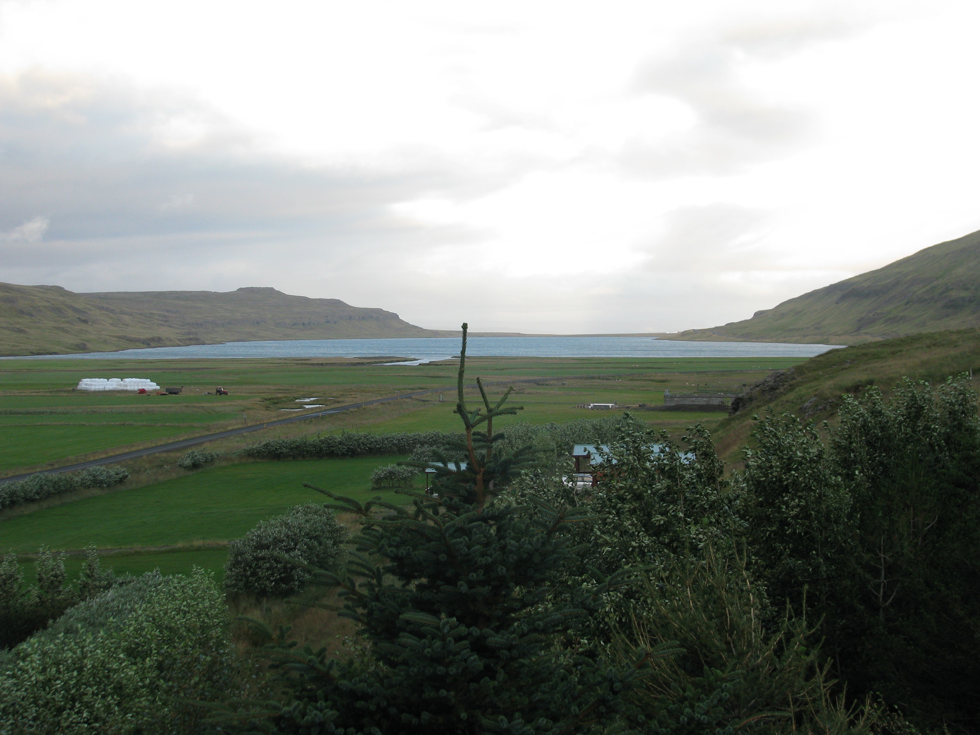 View over lake Haukadalsvatn in Haukadalur, Dalabyggð, Iceland.